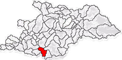 Location of Vima Mică in Maramureş County